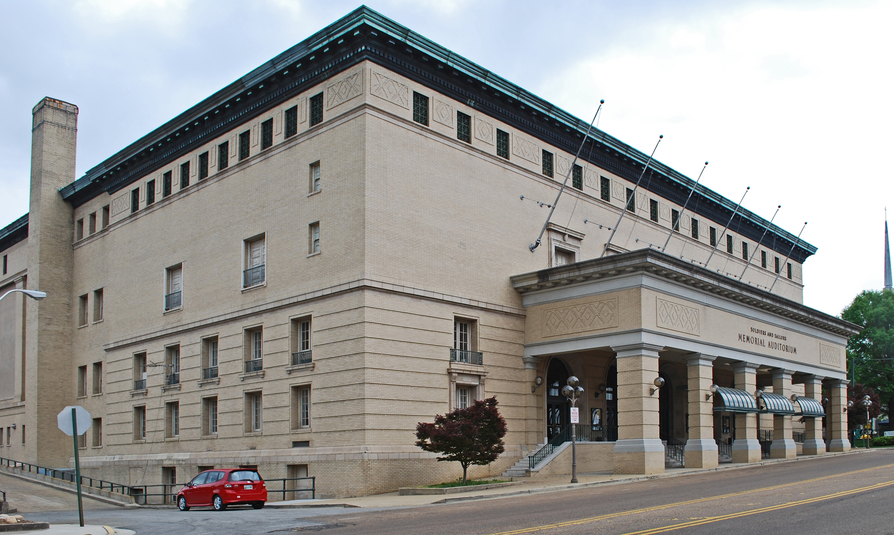 Soldiers And Sailors Memorial Auditoriumin, Chattanooga TN